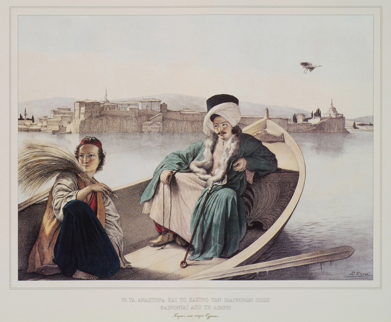 The Palace and the Castle of Ioannina as seen from the lake Turk and young Greek, by Louis Dupré - 1827